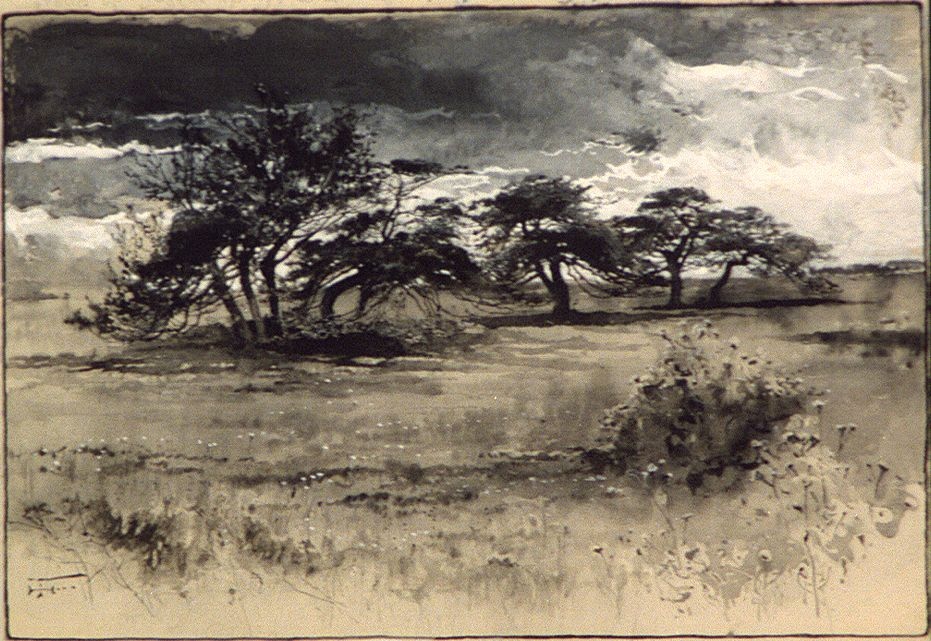 "Thorn-trees near Niagara"